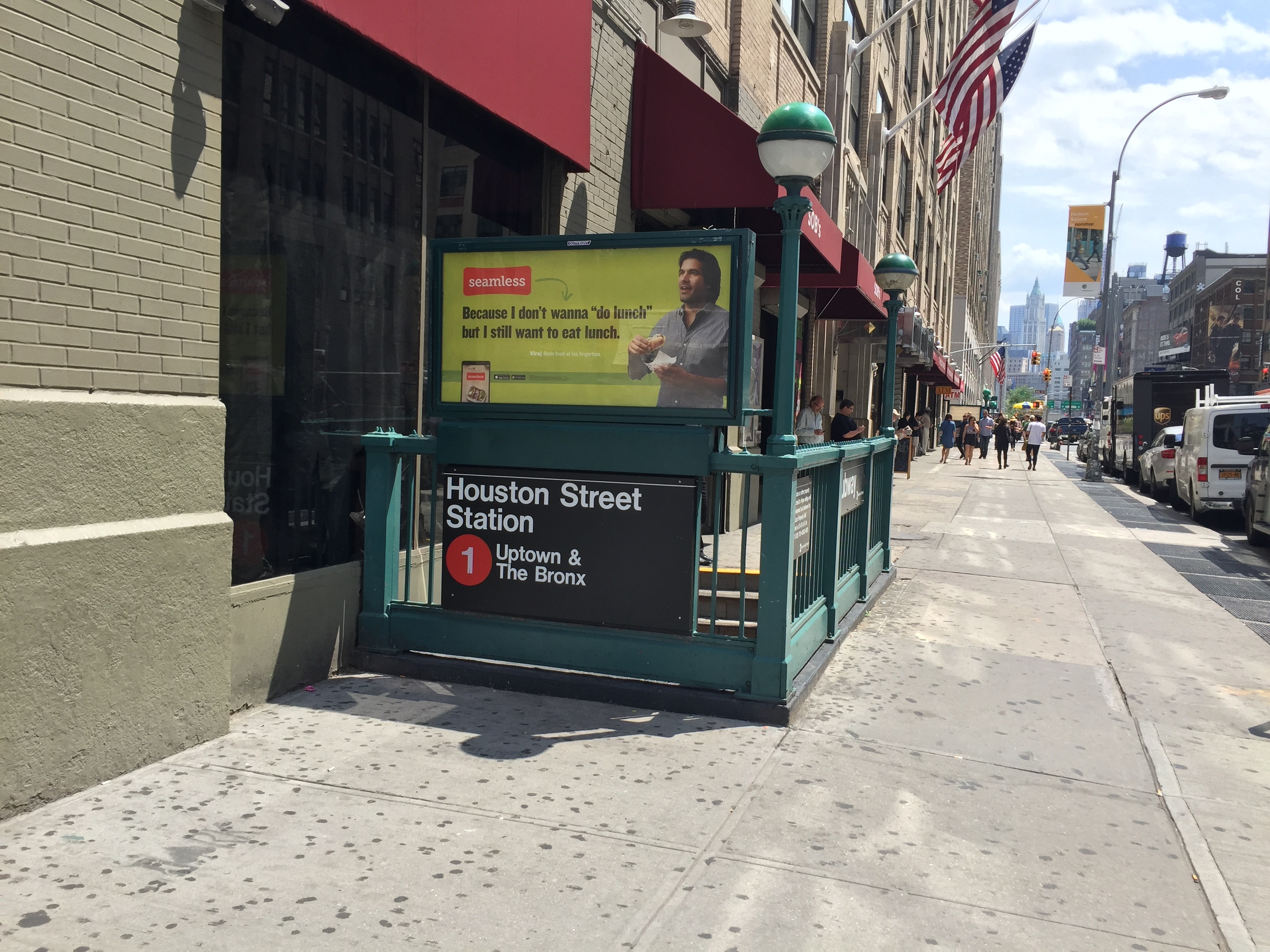 Entrance at the SE corner of Houston Street and Varick Street to the uptown 1 platform.